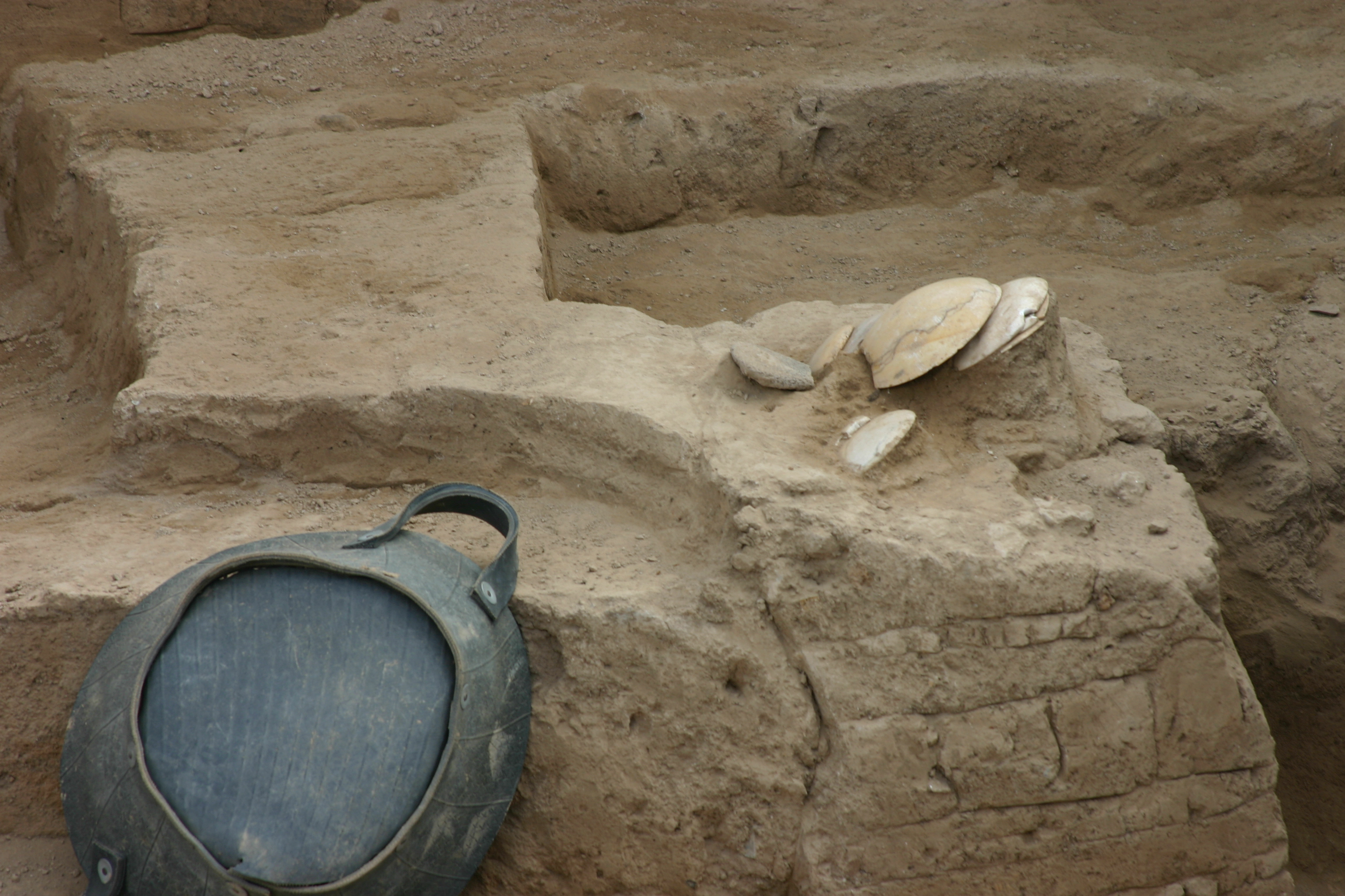 Excavations in Tell Sabi Abyad (detail). Stone plates, Tell Sabi Abyad